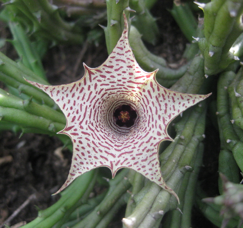 Huernia occulta (family: Asclepiadaceae) flowering on the "Cabe�a do Velho" mountain, Chimoio, Mozambique.